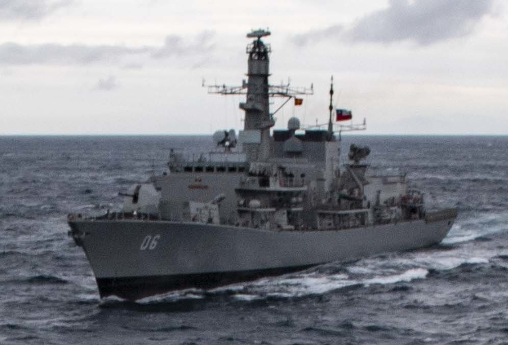 SOUTH PACIFIC OCEAN (June 27, 2019) Sailors watch aboard the Arleigh Burke-class guided-missile destroyer USS Michael Murphy (DDG 112) as the Chilean navy frigate CNS Almirante Condell (FF-06) passes alongside during a leap frog maneuvering exercise. Michael Murphy is participating in UNITAS LX in Valparaiso, Chile, from June 24-July 3. UNITAS, Latin for "unity," is the world's longest-running multinational maritime exercise. Conceived in 1959 and first executed in 1960, UNITAS is a demonstration of U.S. commitment to the region and the strong relationships forged between our partner nations and their militaries. (U.S. Navy photo by Mass Communication Specialist 2nd Class Justin R. Pacheco/Released) 190627-N-NU281-1191